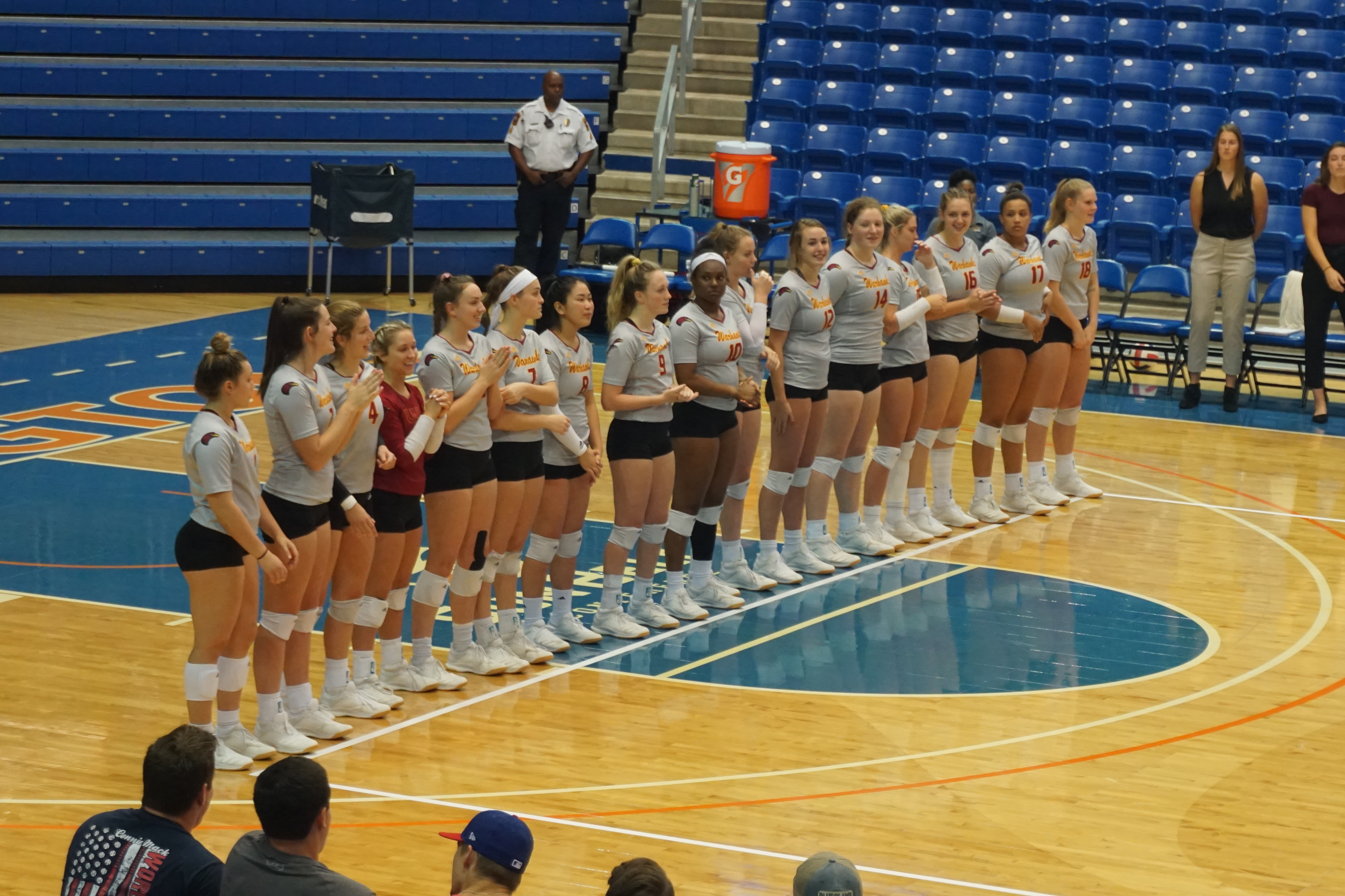 Louisiana–Monroe player introductions before the Louisiana–Monroe Warhawks vs. UT Arlington Mavericks women's volleyball match at College Park Center in Arlington, Texas (United States). UT Arlington won 3–1 (27–29, 25–20, 25–15, 25–14).